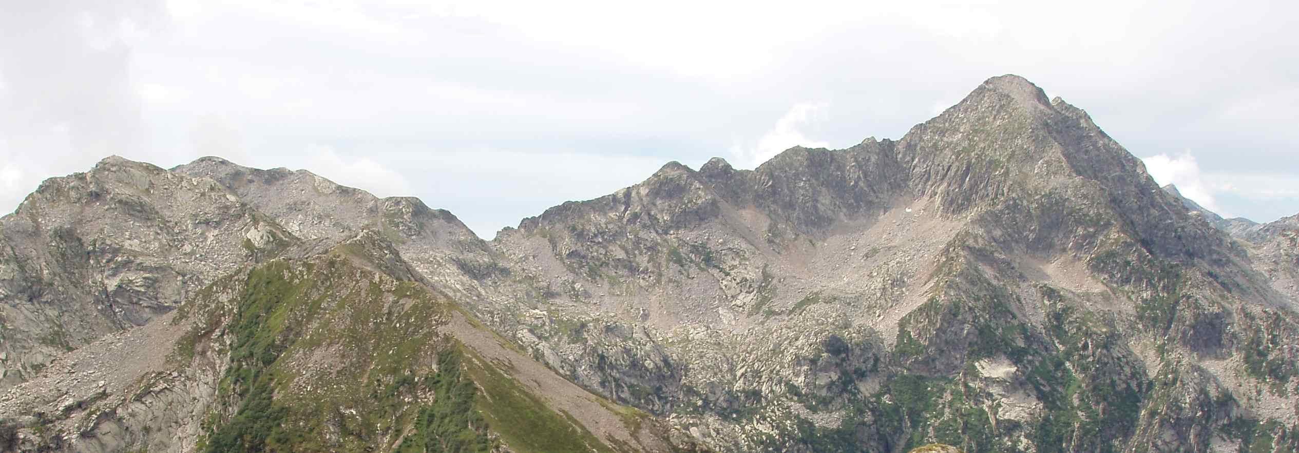 Mount Mars, Camino and Gran Gabe from Mount Gragliasca